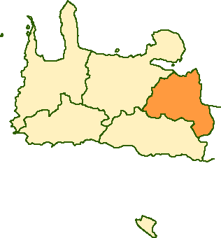 Map of Apokoronas province, Crete